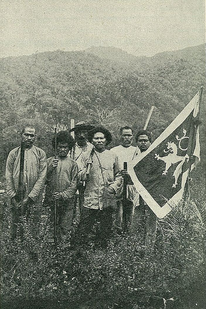 Expedition of a Czech traveller Enrique Stanko Vráz with a Czech flag advances to the Smetana Mountains (New Guinea).